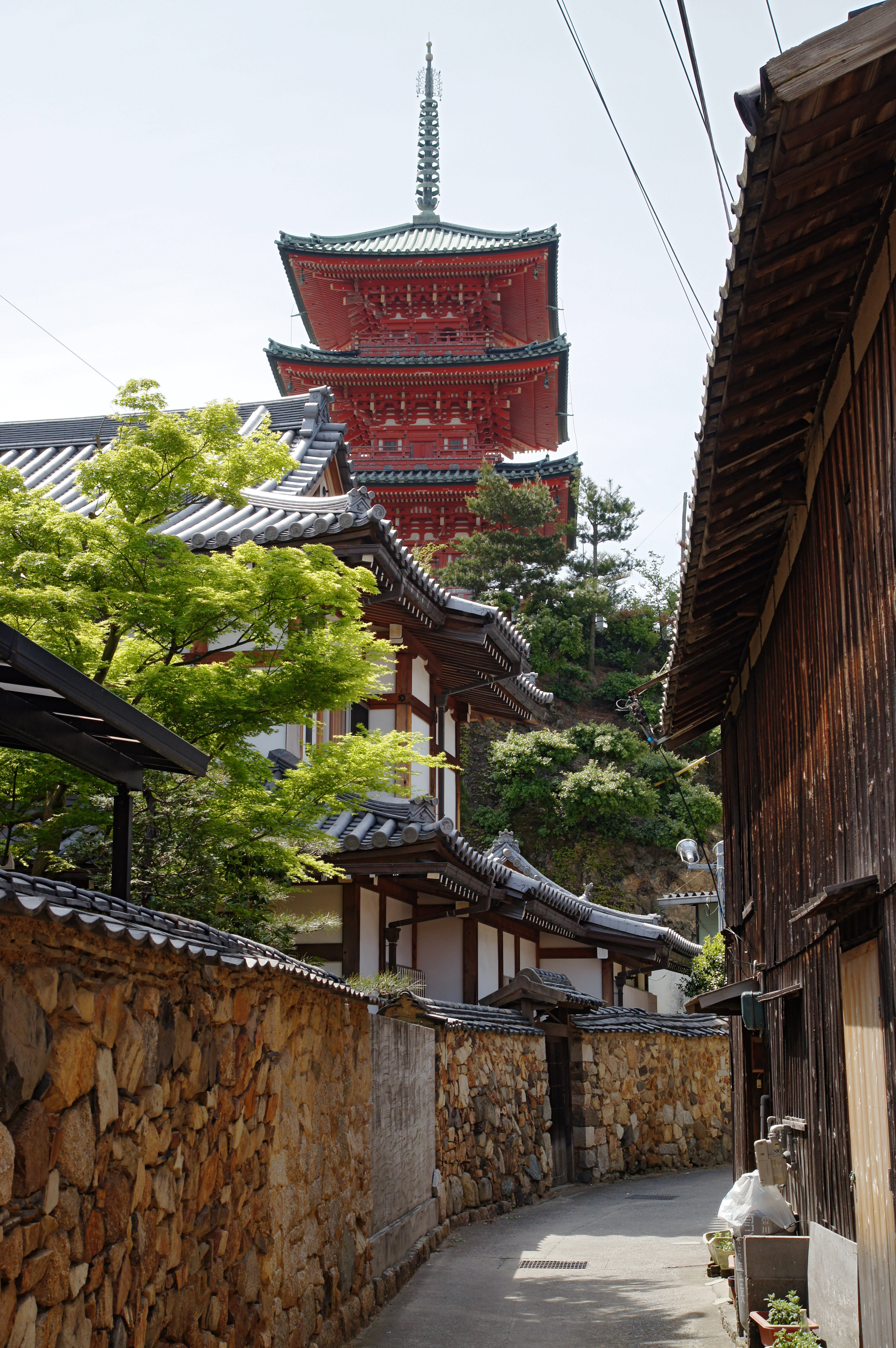 Saiko-ji in Shodo Island, Tonosho, Kagawa Prefecture, Japan